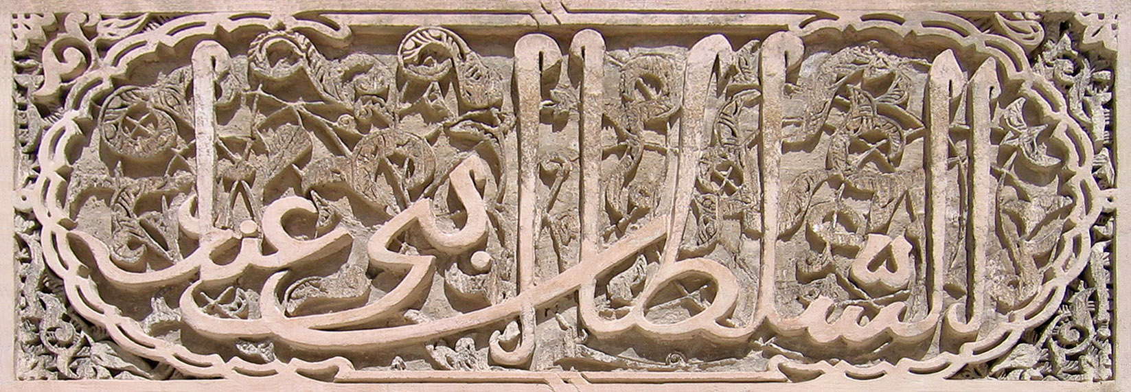 Detail of a calligraphy sculpture of the Bou Inania Madrasa, Fes, Morocco.